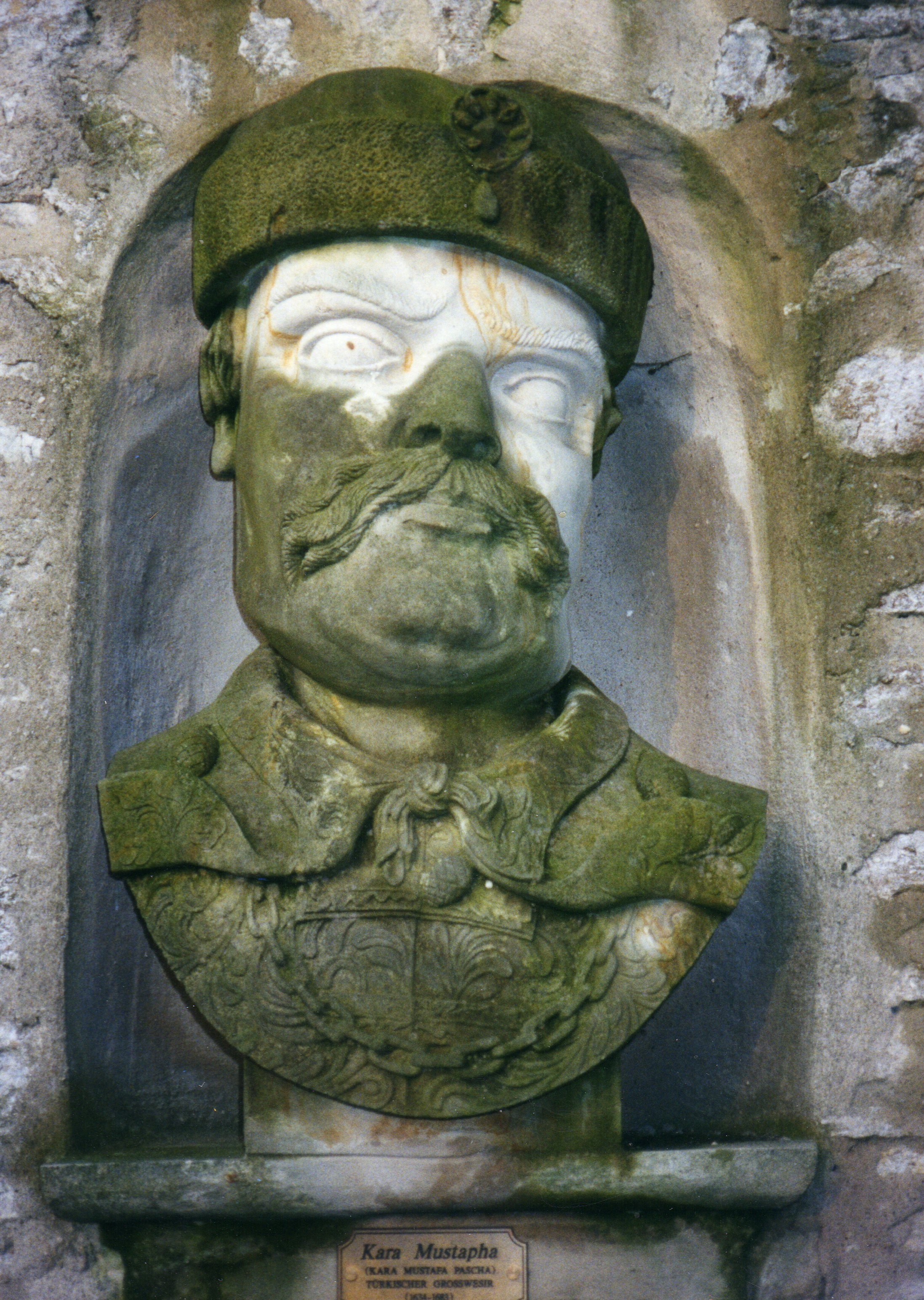 Bust of Kara Mustapha in Park of Schloss Kromsdorf